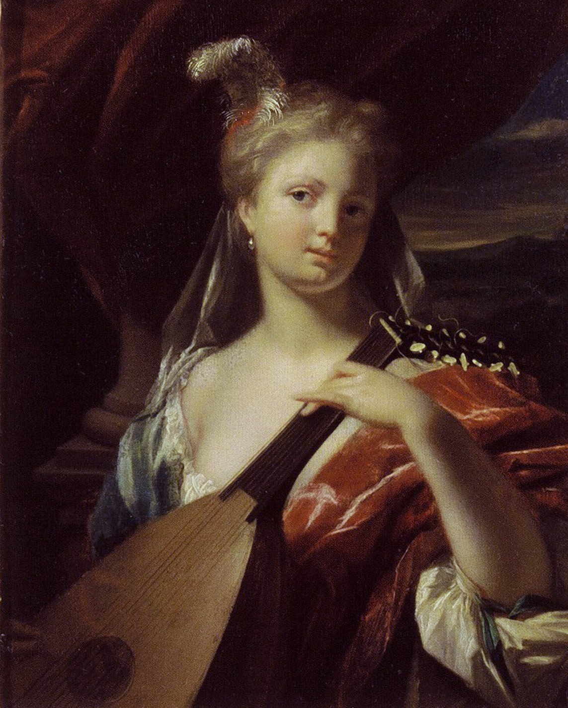 Woman playing a lute. This painting was the model for the face of Dutch 100 guilder note in the 1930's (see File:100_Gulden_biljet_met_luitspeelster.jpg).